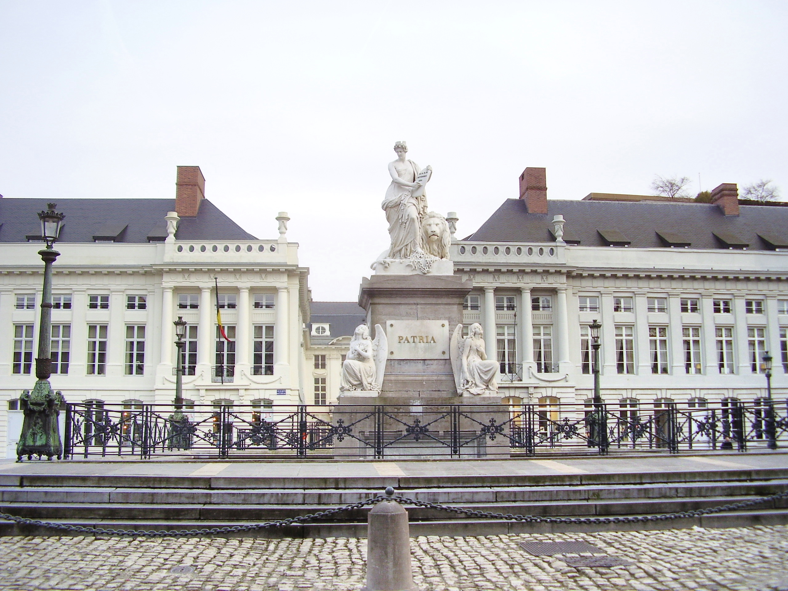 Description: Place des Martyrs, monument Patria de Guillaume GEEFS (1838) - Bruxelles Author: User:Ben2 Date of creation: 18 août 2006 Source: Photo personnelle